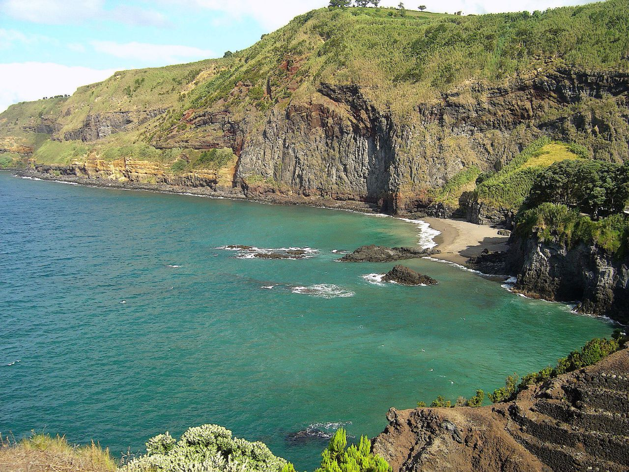 See where this picture was taken. [?]